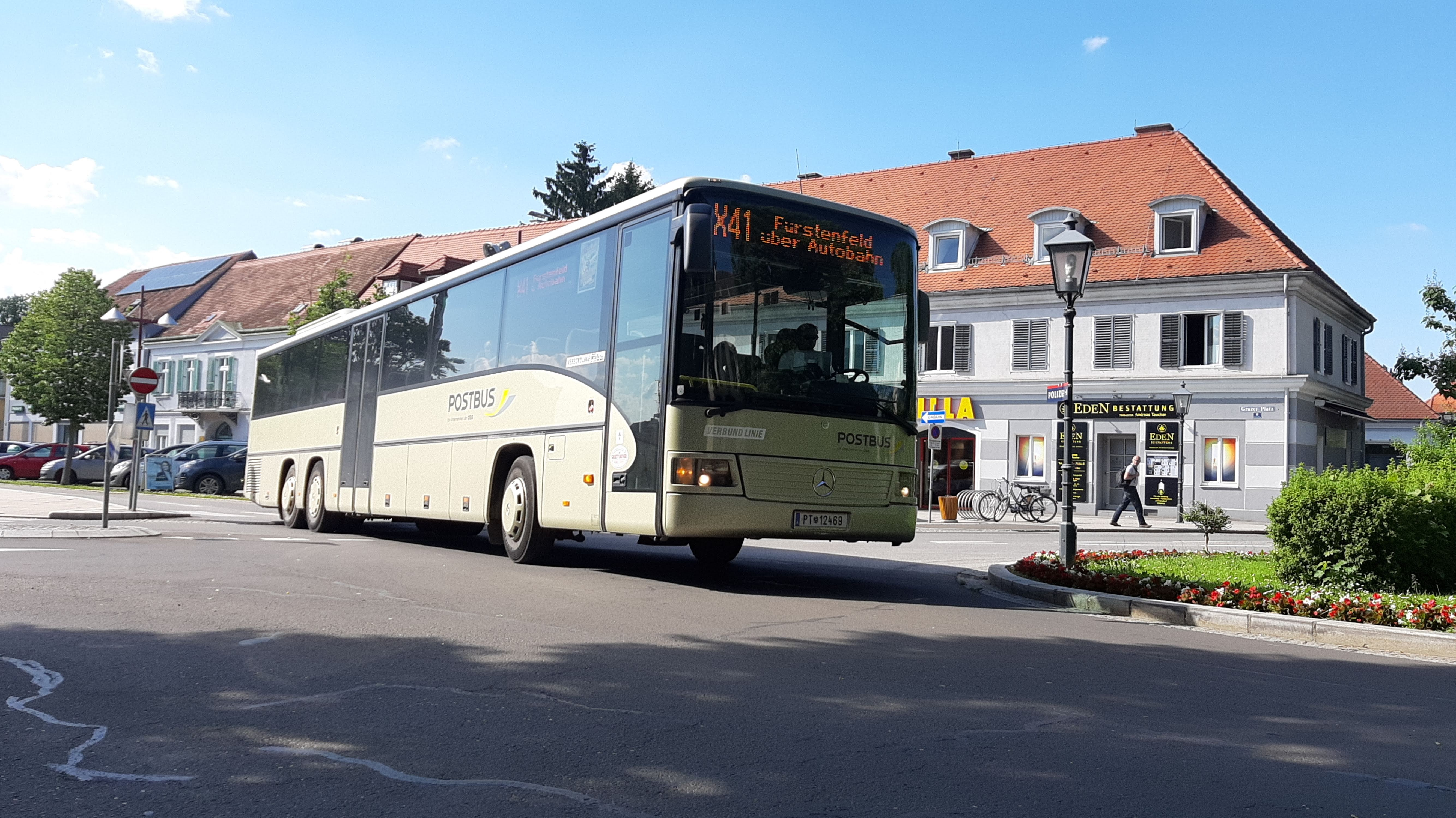 Mercedes Bus in Austria